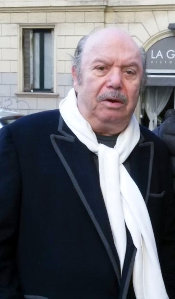 The italian actor Lino Banfi in 2015